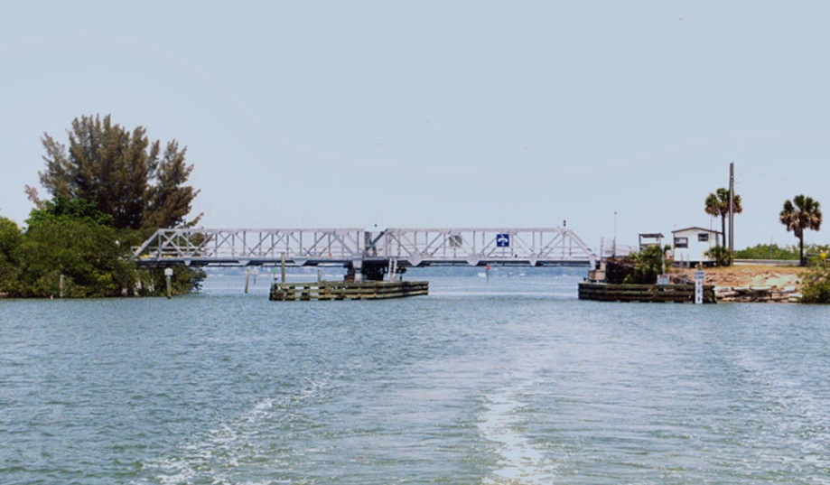 The Blackburn Point Bridge, in Florida, is a swing bridge that is listed on the U.S. National Register of Historic Places. It was built in 1926. (Photographer's caption on Flickr: Janet and I took two German guests on a cruise of the Intracoastal Waterway during a Friendship Force exchange in 1989. We went on the "Bay Lady," which made a round trip from Nokomis to Venice. The cruise began (and ended) near the Blackburn Point Bridge, which carries Blackburn Point Road from the Florida mainland (right) to Casey Key (left), a barrier island. The bridge is a one-lane swing bridge, which pivots on the center "island".)